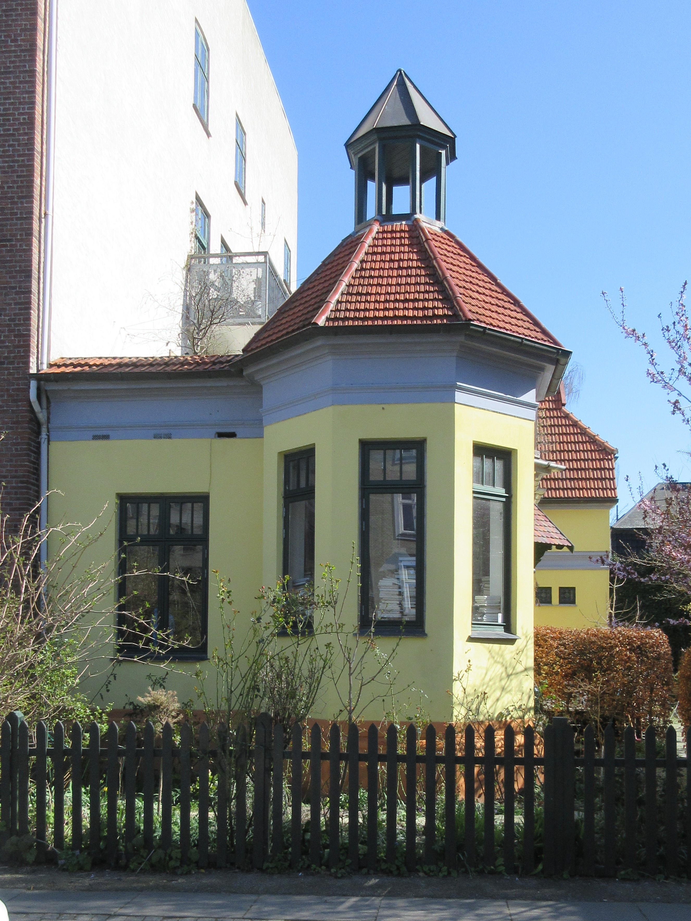 Lykkesholms Allé 16B in Frederiksberg, Denmark